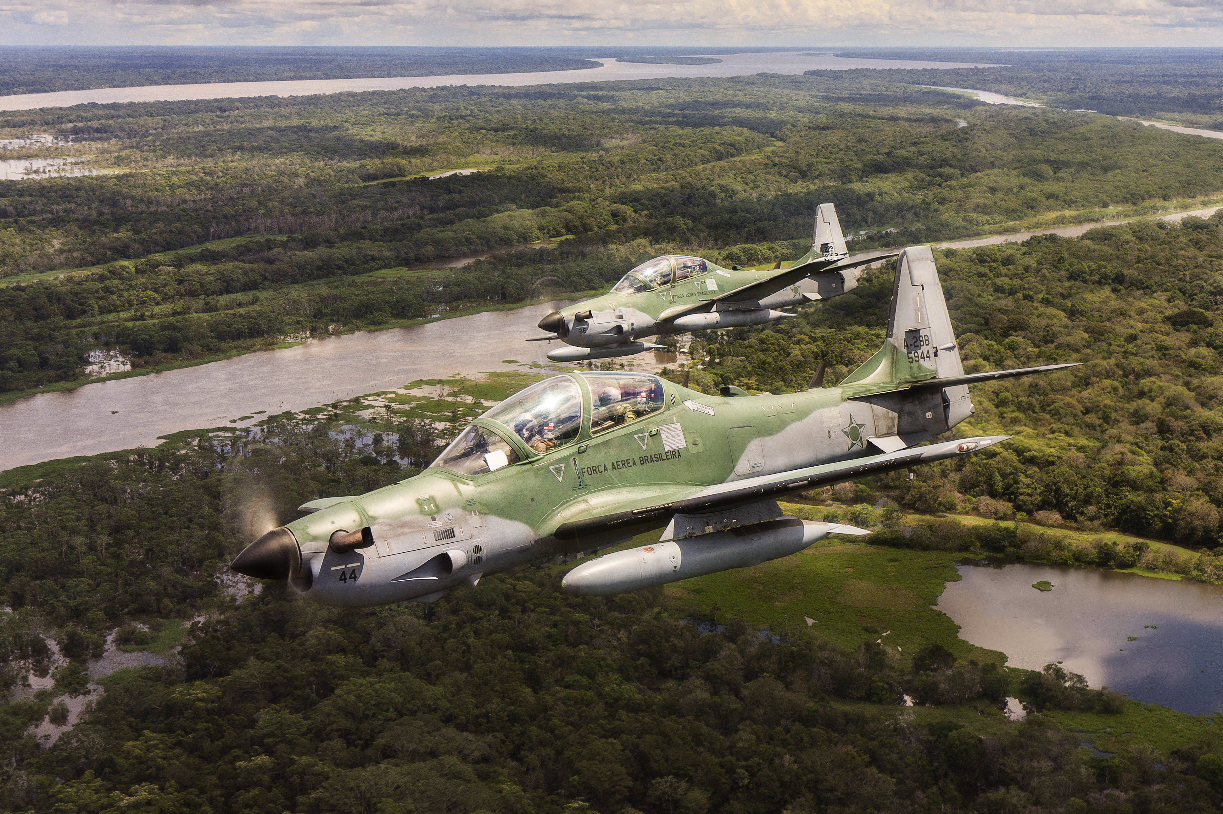 A pair of Brazilian Air Force Embraer A-29 Super Tucanos in flight over the Amazon Rainforest.